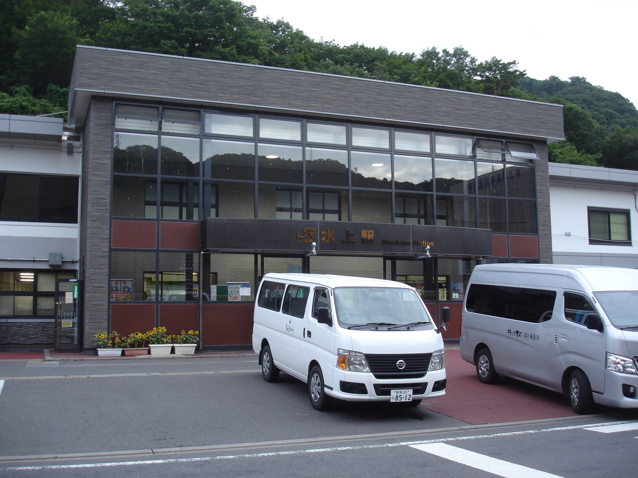 Minakami Station in Gunma Prefecture, Japan